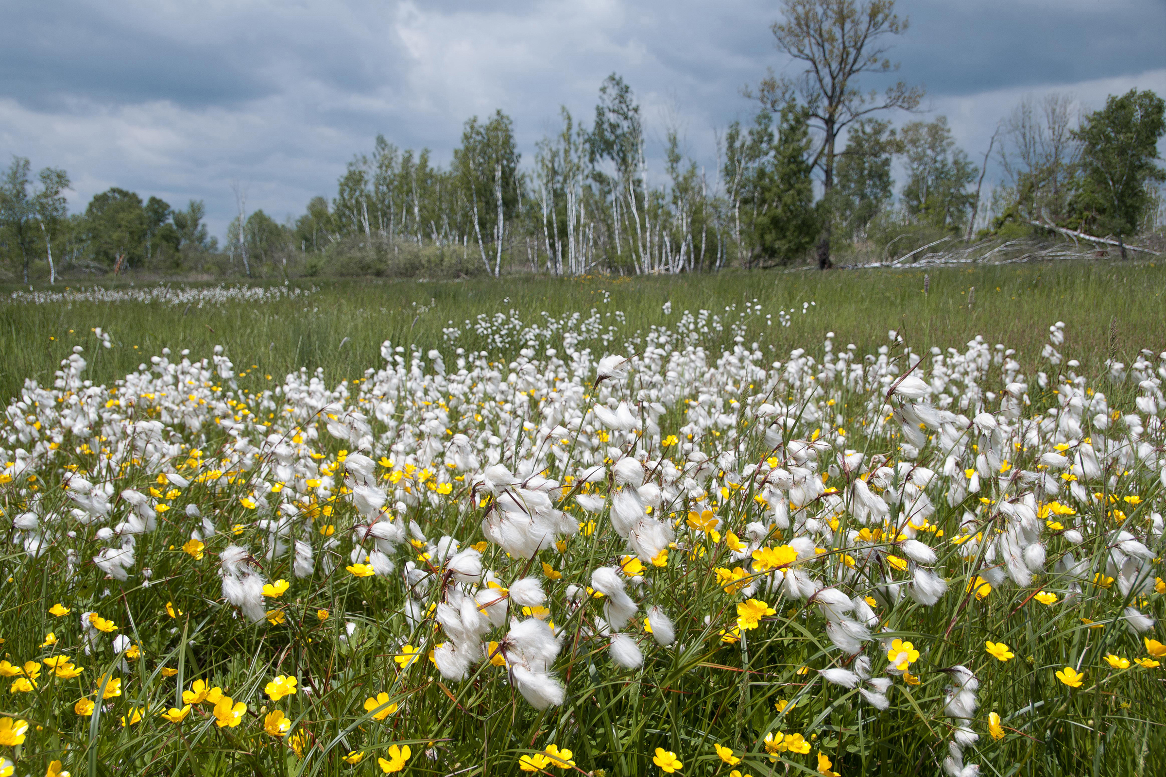 Naturschutzgebiet (NSG) „Leipheimer Moos“, Swabia (Bavaria), Bavaria. Special plants, signifier of swampy wetlands: habitat for Cyperaceae, Eriophorum, Caltha.